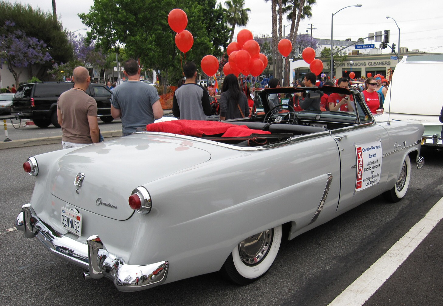 For the 2011 Los Angeles Pride, I marched with a pan-Asian delegation, to show my support for LGBT rights in Asian communities of Southern California. API Equality Los Angeles was honored with the Connie Norman Award for its outstanding work in furthering LGBT rights for Asian-Americans. This vintage Ford convertible is being used to carry a few of API Equality's members and to showcase the honor. This '52 is a very old model, produced for model years 1952 through 1954.